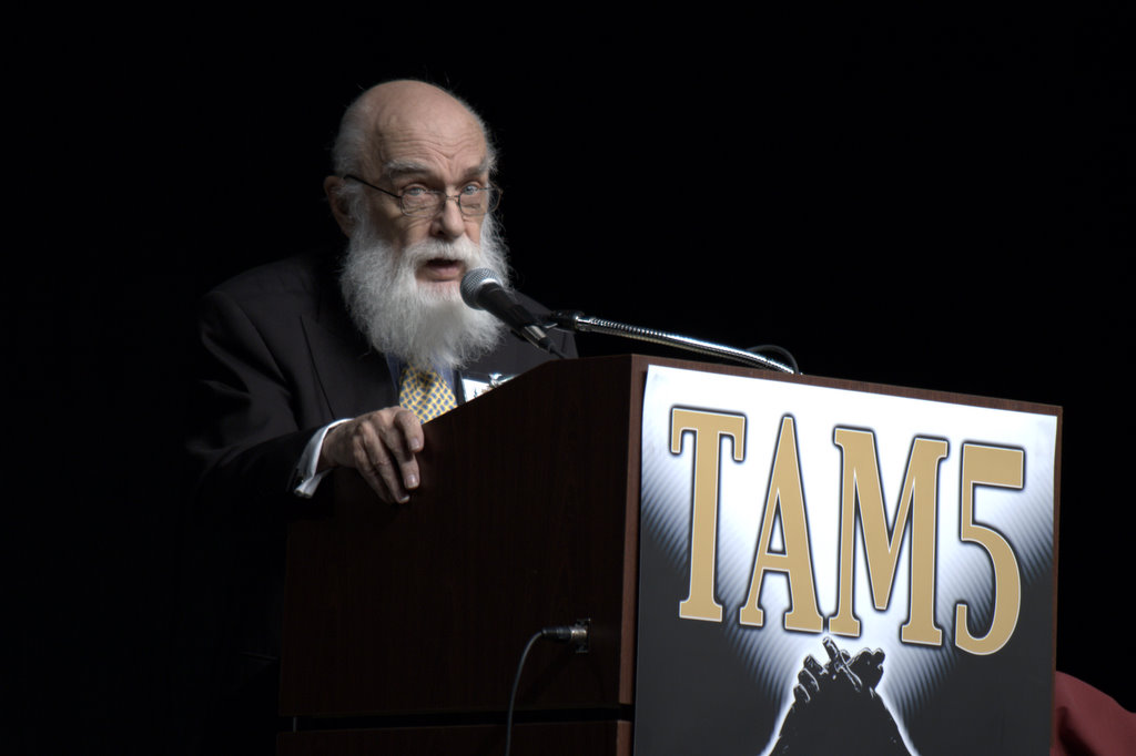 James Randi at "The Amazing Meeting 5", The Riviera Hotel, Las Vegas, Nevada.